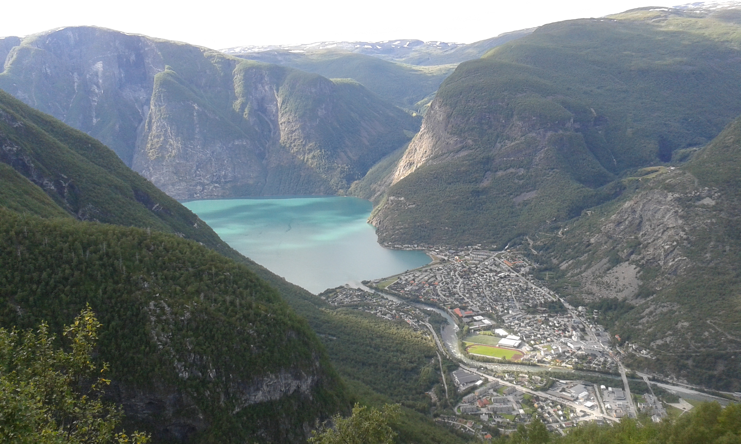 Øvde Årdal and Årdalsvatnet lake seen from the “1000 metres” viewpoint